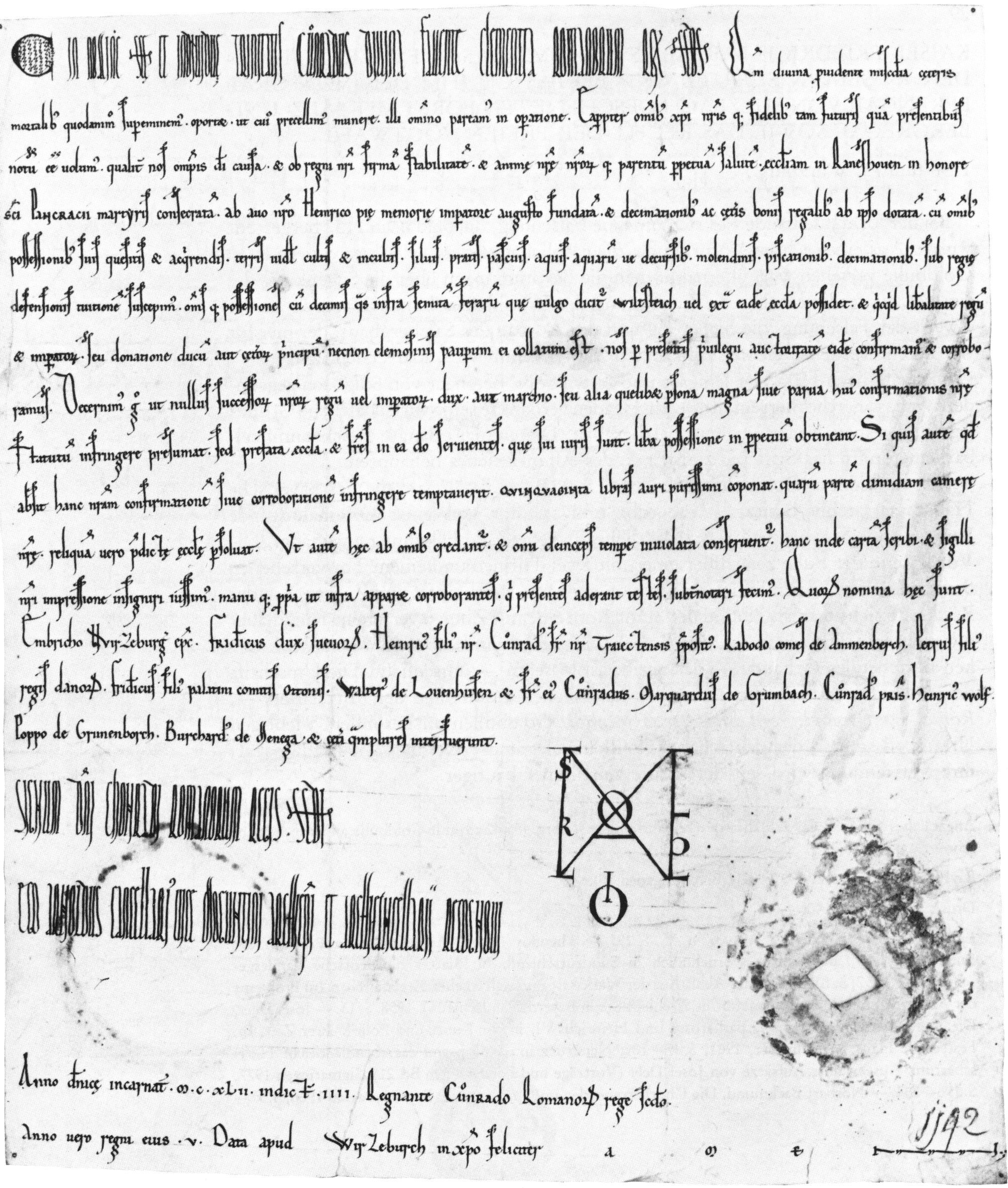 Charter of king Conrad III of Germany for Stift Ranshofen, issued between June and September 1142. München, Bayerisches Hauptstaatsarchiv, Kaiserselekt 467.